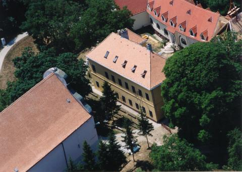 Homokkomárom, Hungary, aerialphotography